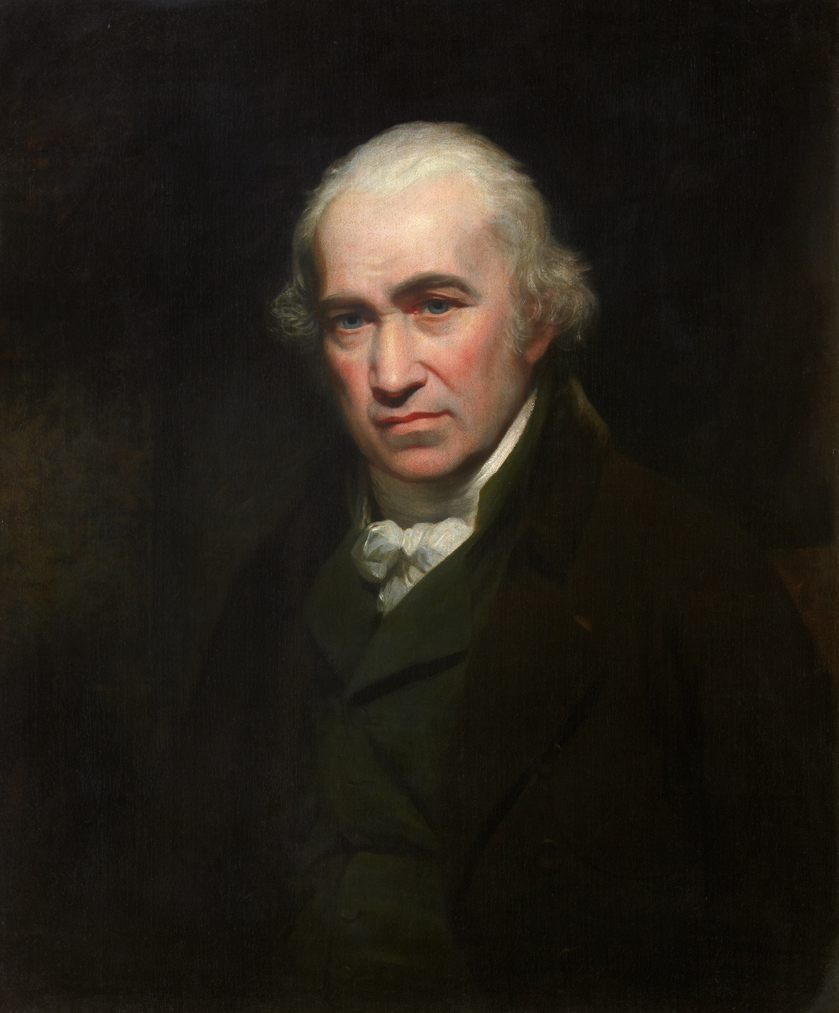 Portrait of James Watt (1736-1819), by Sir William Beechey RA (1753-1839), ca.1802. The property of Heriot-Watt University, Scotland. Published at